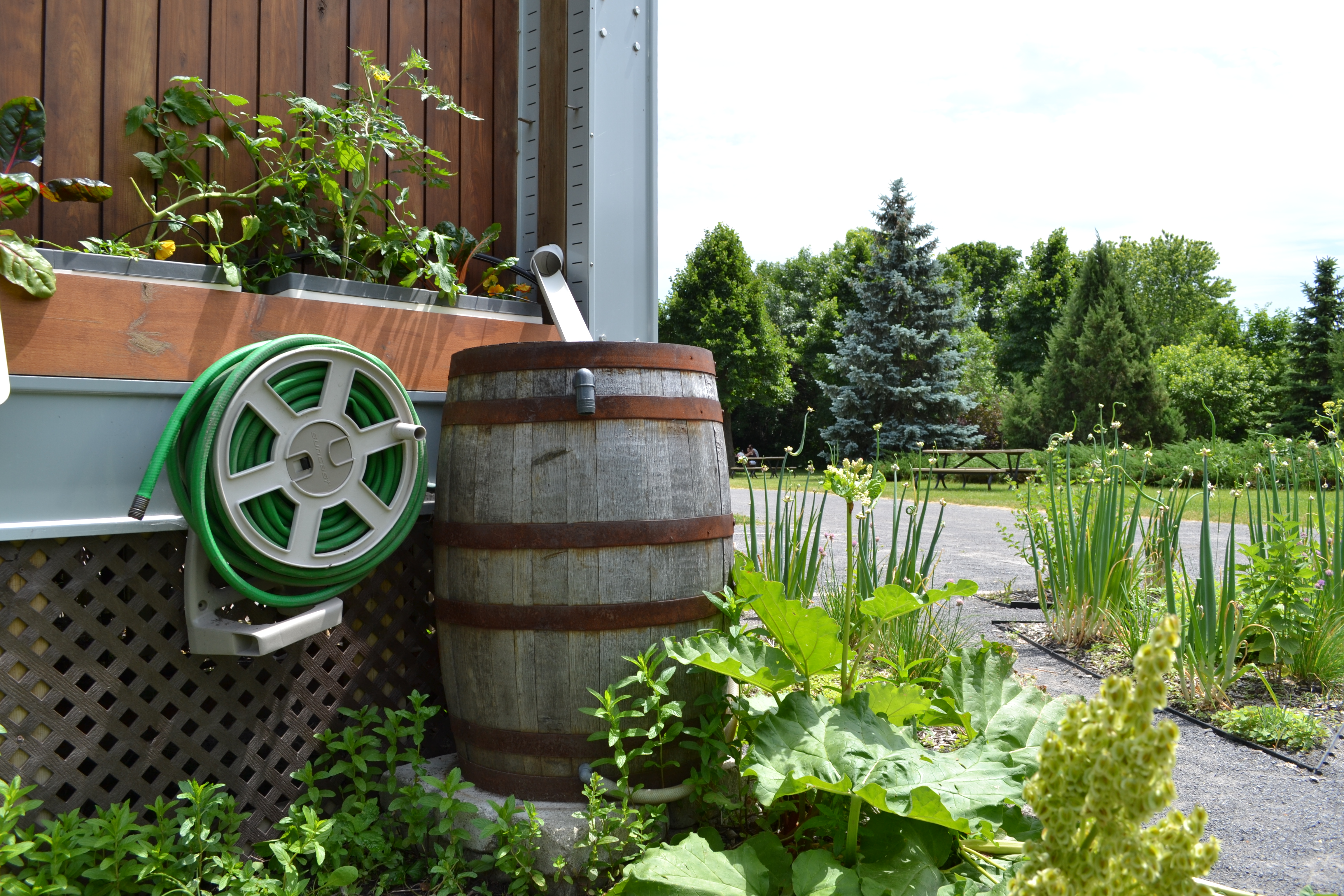 The Ecoological Solar House is located on the Saint Helen's Island, Montreal, Canada. The solar house was designed by students of McGill University, University of Montreal and the École de technologie supérieure in the context of international competition Solar Decathlon in Washington, DC. The Ecoological Solar House, Environment Canada.